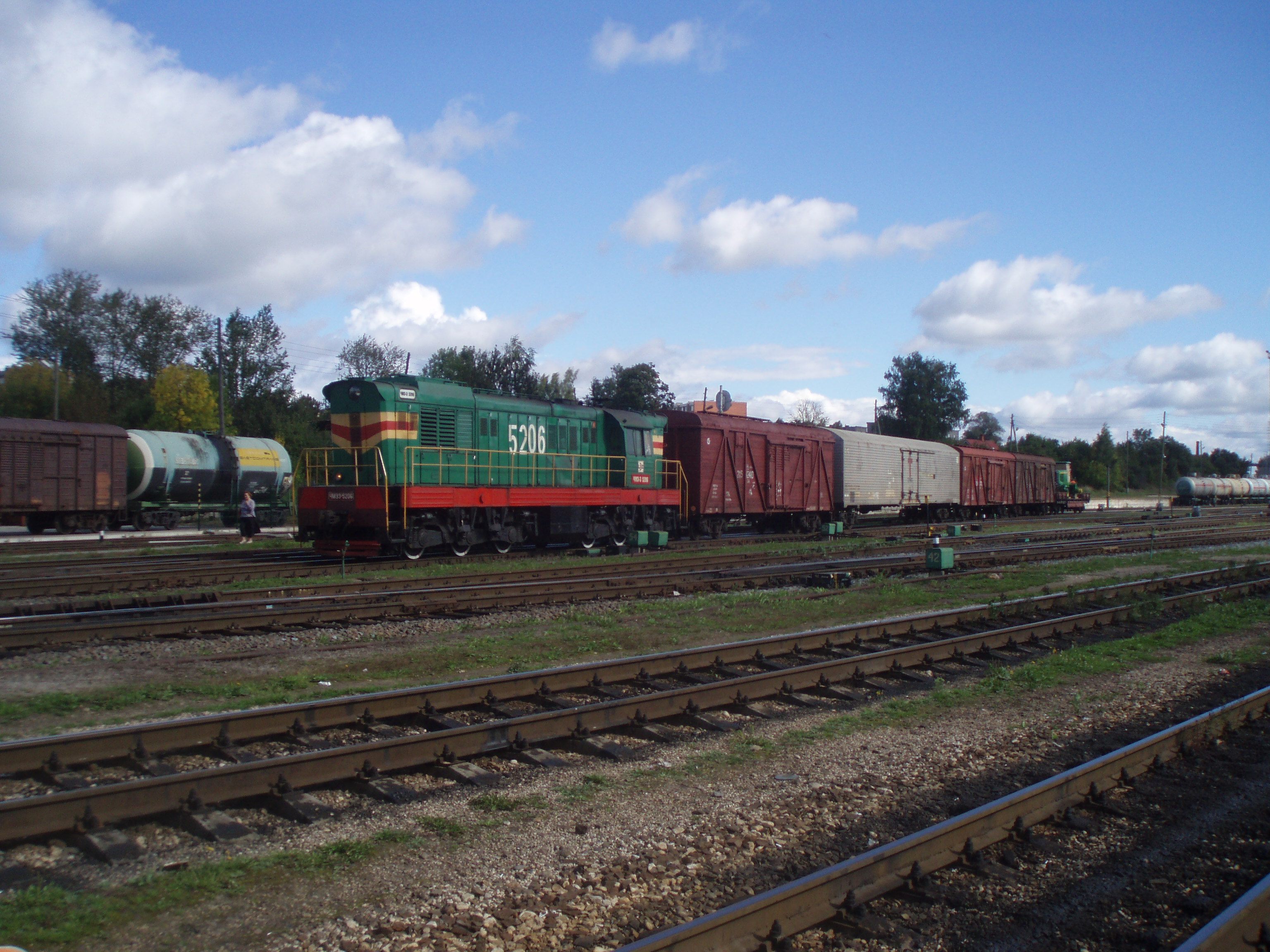 Diesel locomotive-shunter ChME3-5206 on train station "Rēzekne II".